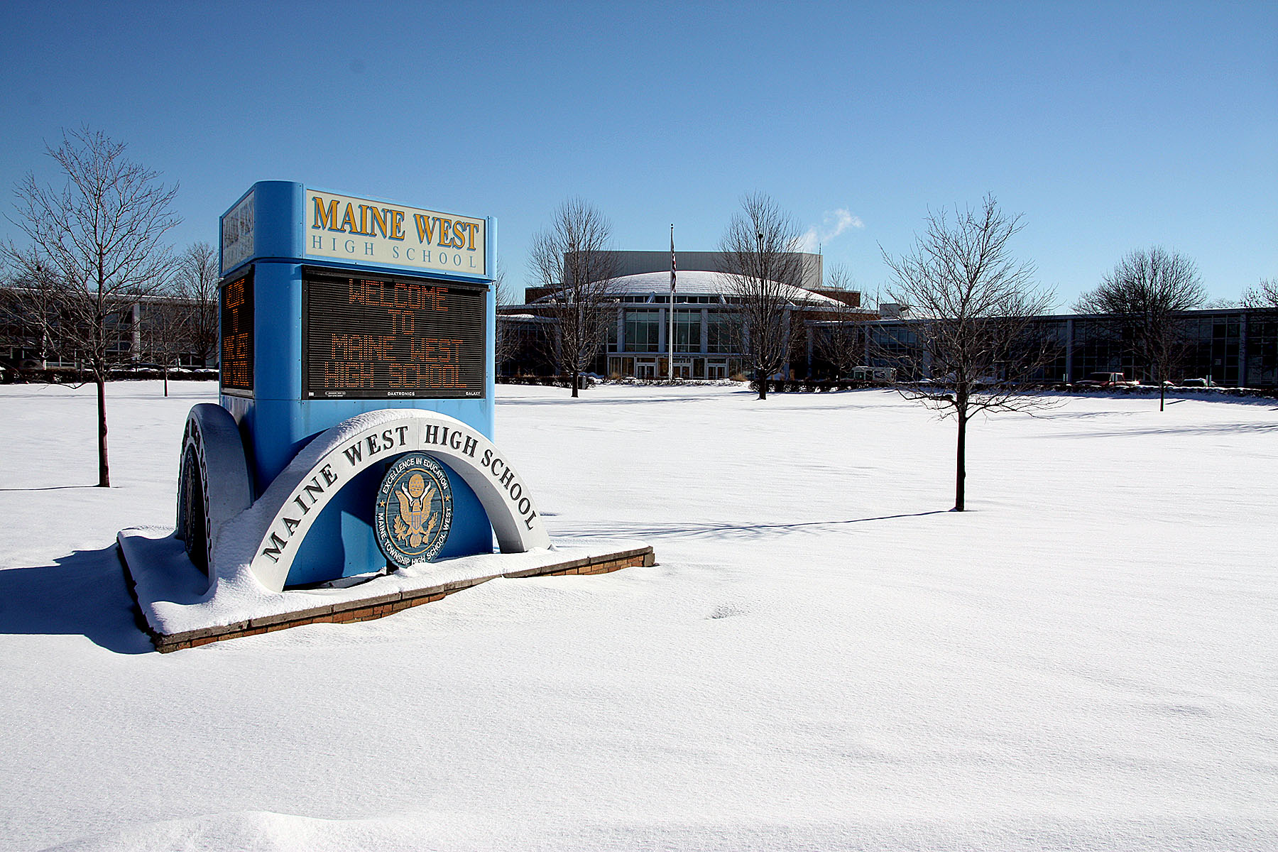 Maine West H.S. during the winter months.